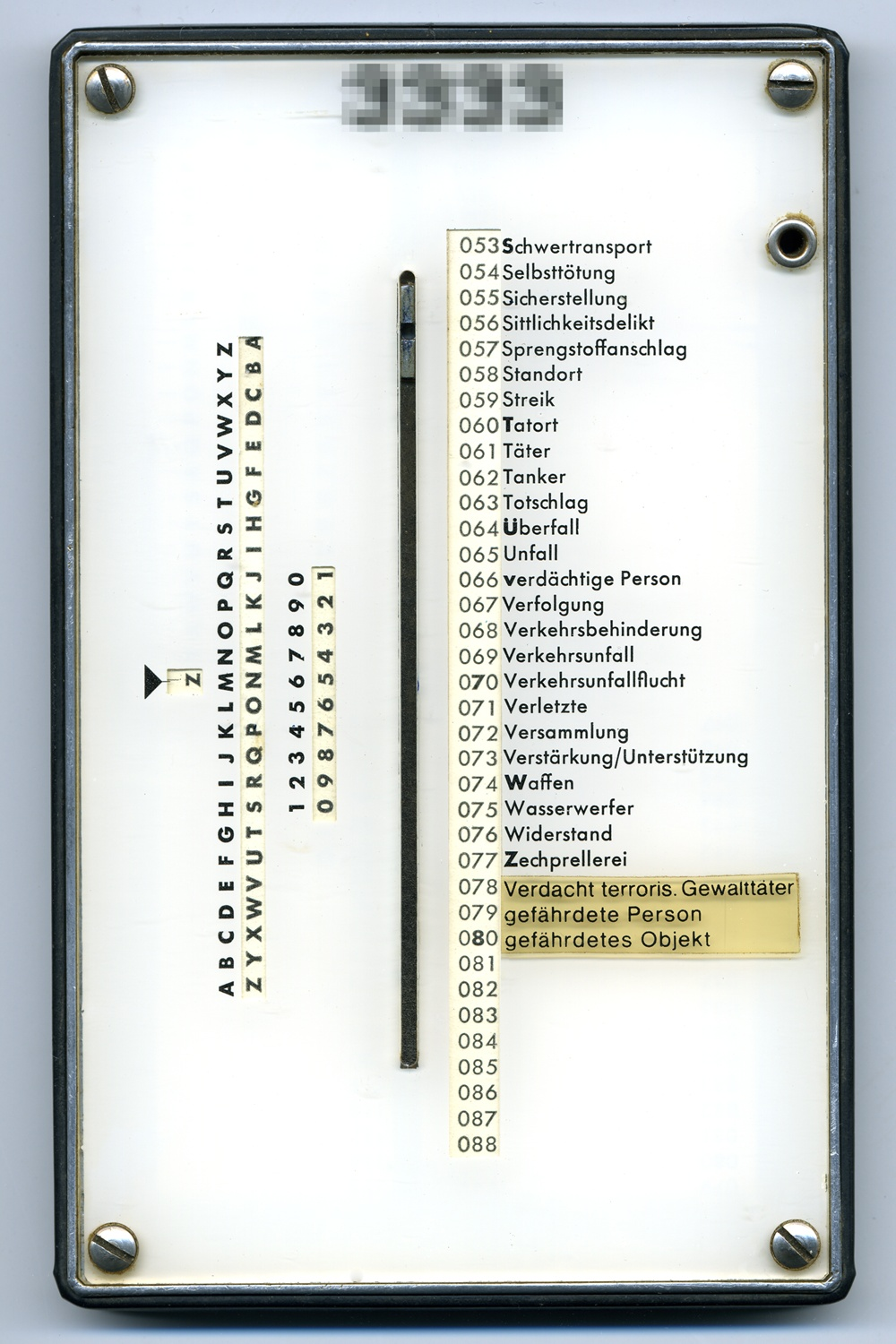 Slider for crypting, used by German police since 1960ies in radio communication